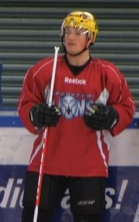 Nick Angell @Practice